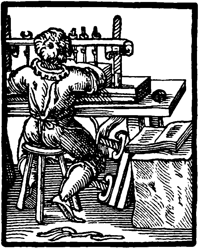 Illustration of a bookbinder from The Art of Bookbinding by Joseph William Zaehnsdorf.